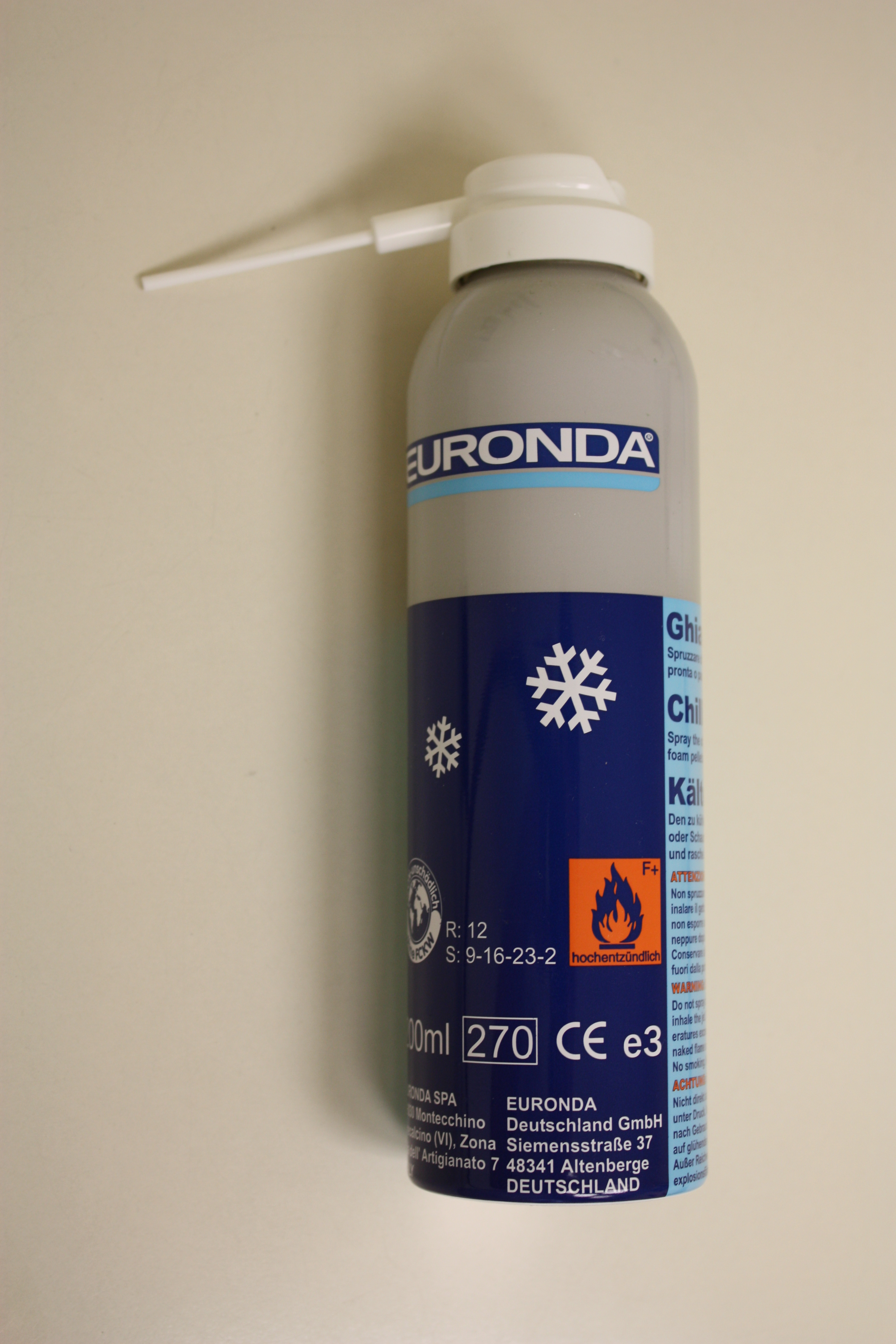 Cold spray